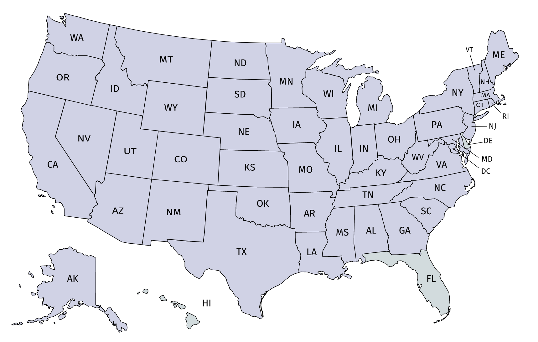 Map